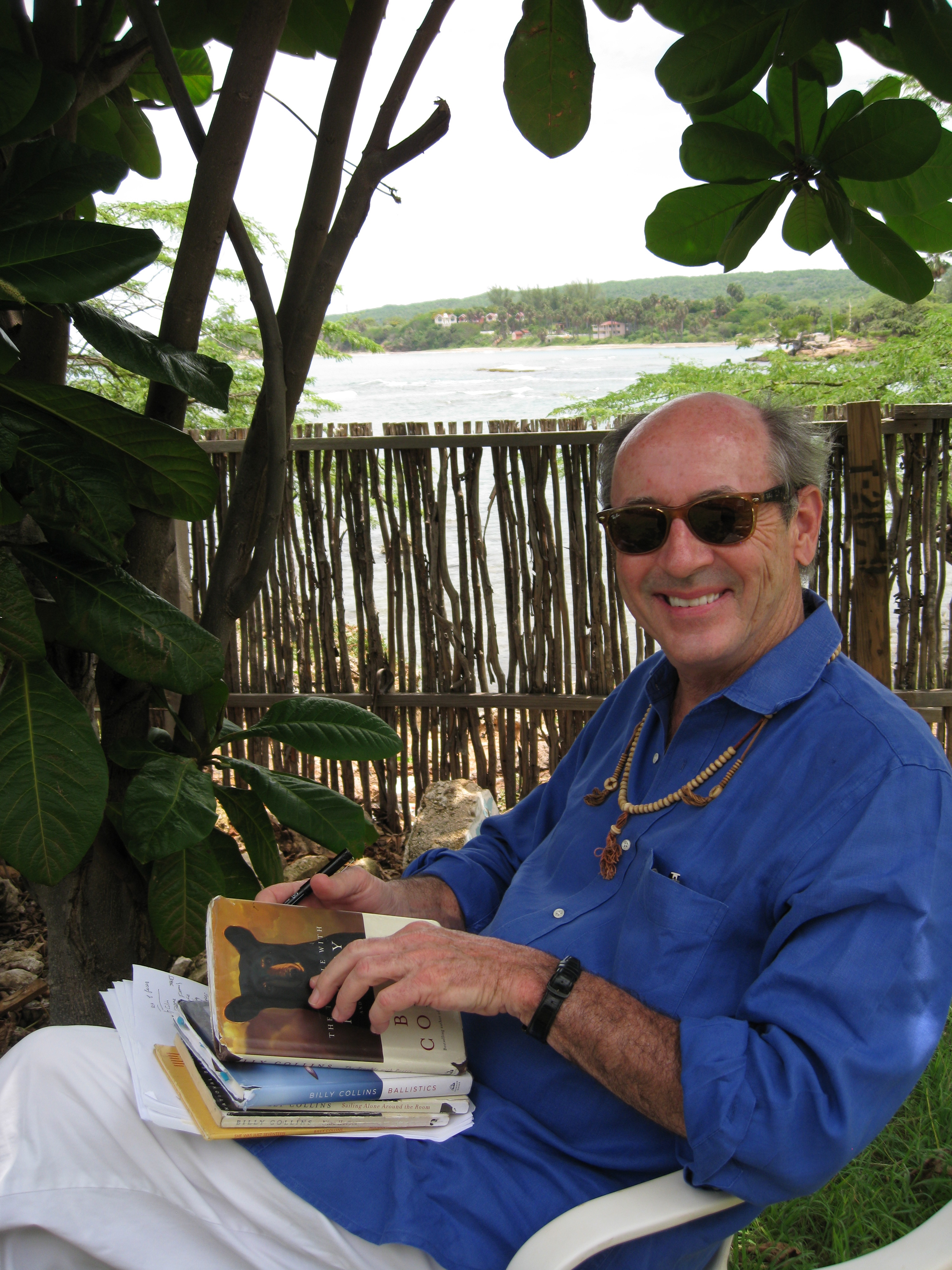 Former United States Poet Laureate (2001-2003) Billy Collins at the 10th annual Calabash Literary Festival in St. Elizabeth's, Jamaica, May 30, 2010, photographed by Suzannah Gilman.